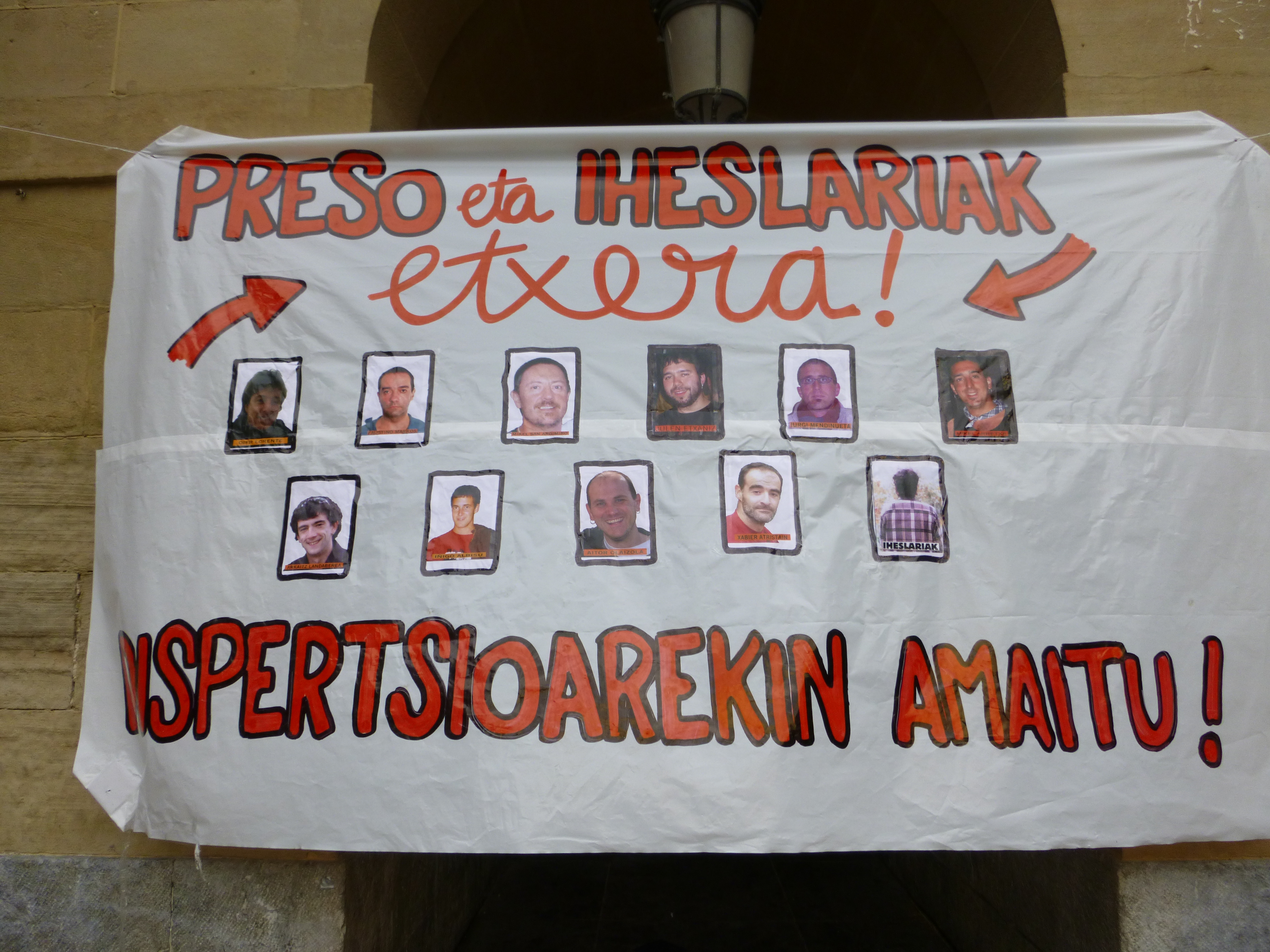 Banner supporting basque prisoners